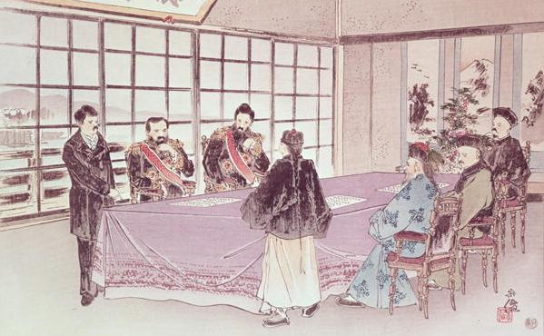 Japanese ministers I-Tso and Mou-Tsou discuss with Chinese envoy Ri-Ko-Sho conditions of Shimonoseki truce, 16th April 189